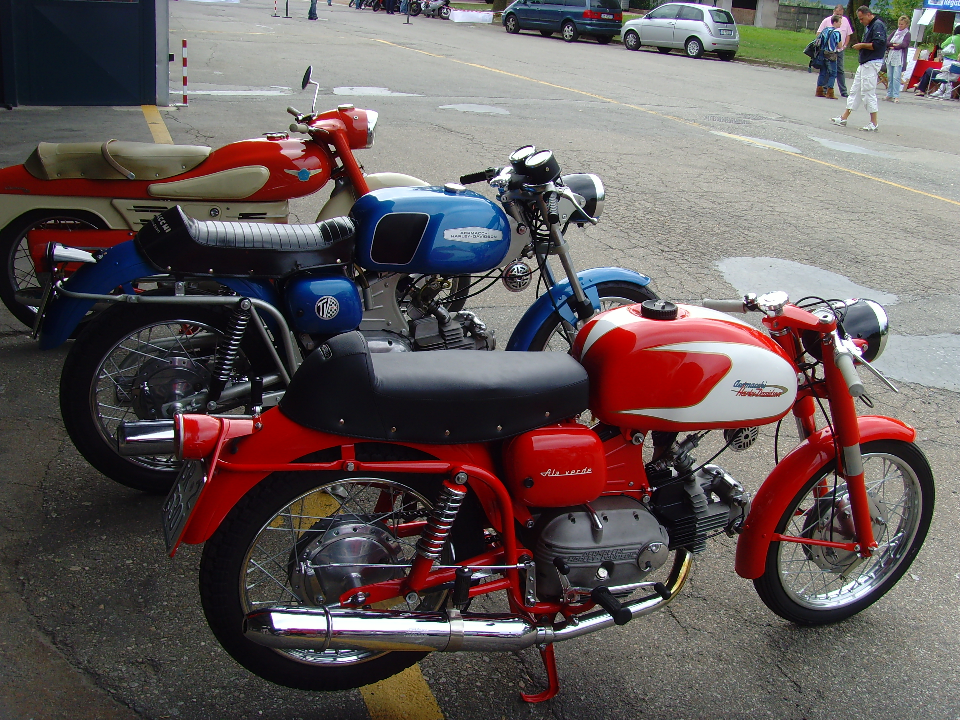 Aermacchi-Harley Davidson